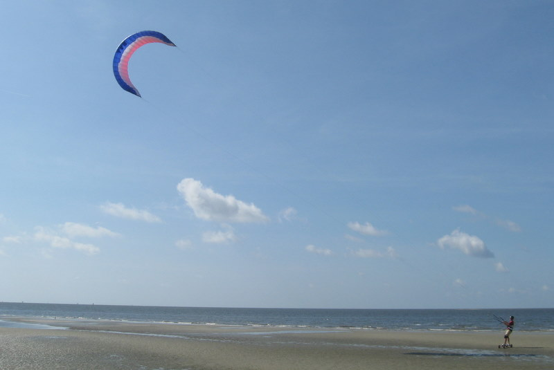 A Peter Lynn Syngery 15m^2 ridden with an ATB on the Beach of Saint Simons Island, GA, USA.